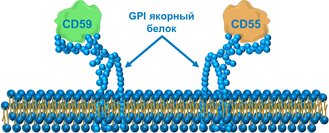 GPI ancors